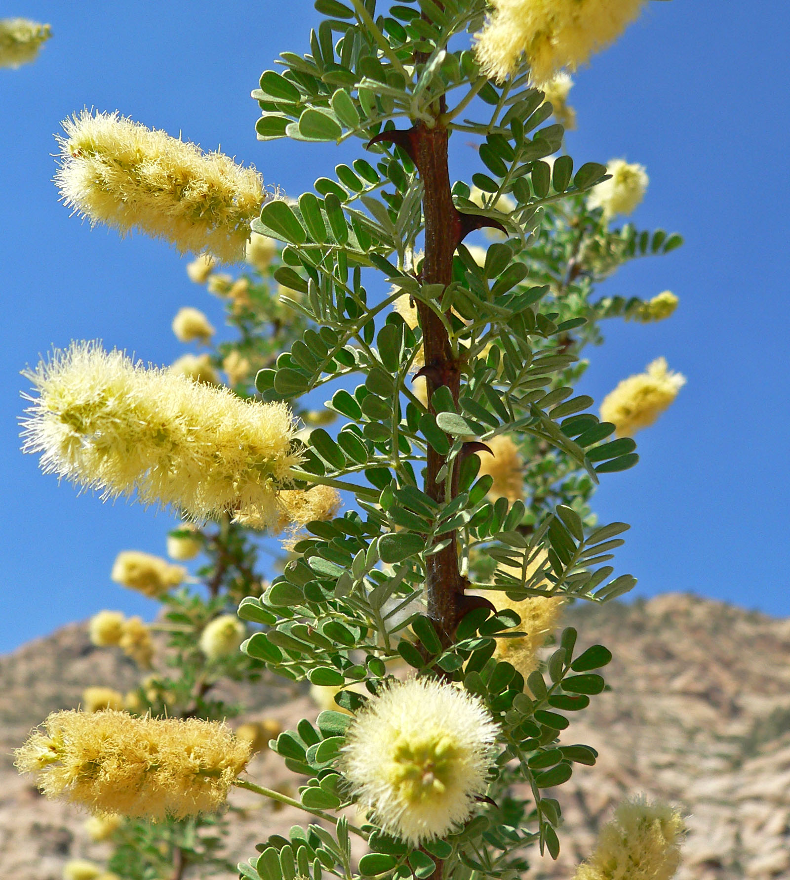 Acacia greggii in Red Rock Canyon, southern Nevada